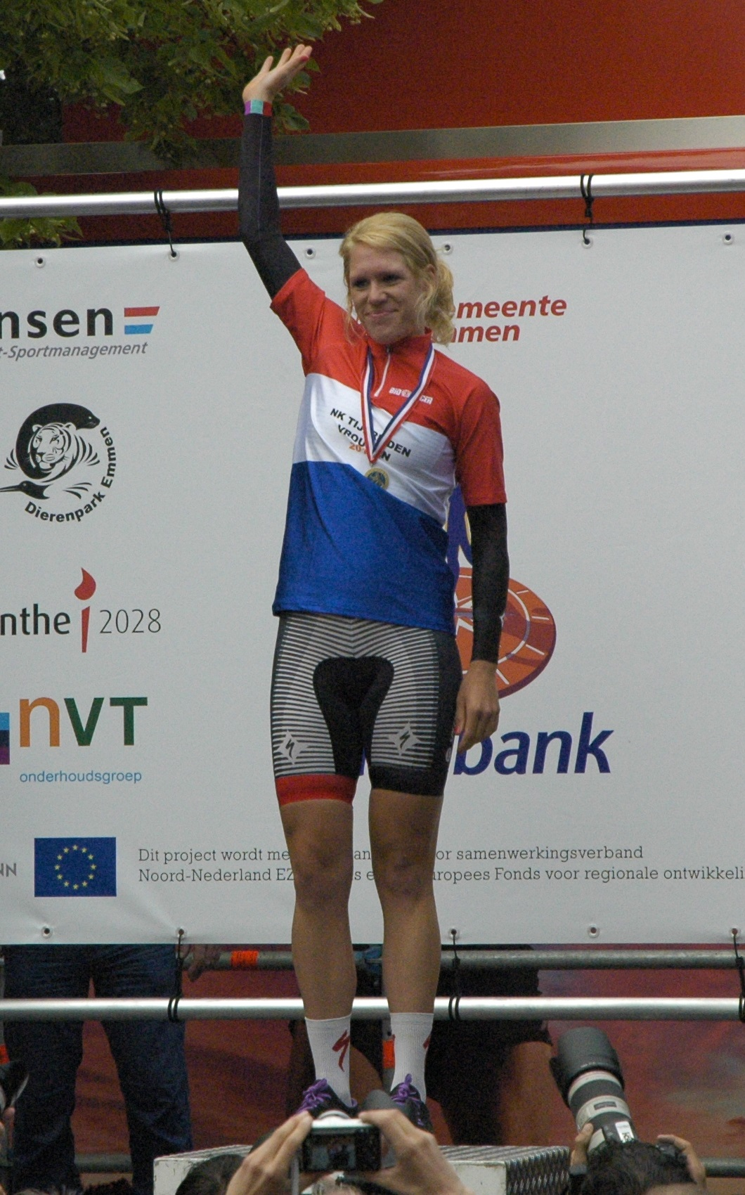 Ellen van Dijk on the podium at the 2012 Duch National Time Trial Championships in Emmen (elite women's), Dutch national jersey